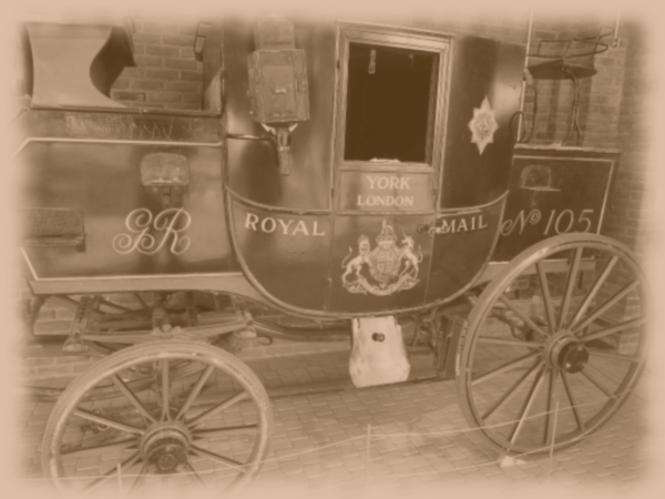 Royal Mail Cart in the Stockwood Park Mossman Collection for more of my images visit